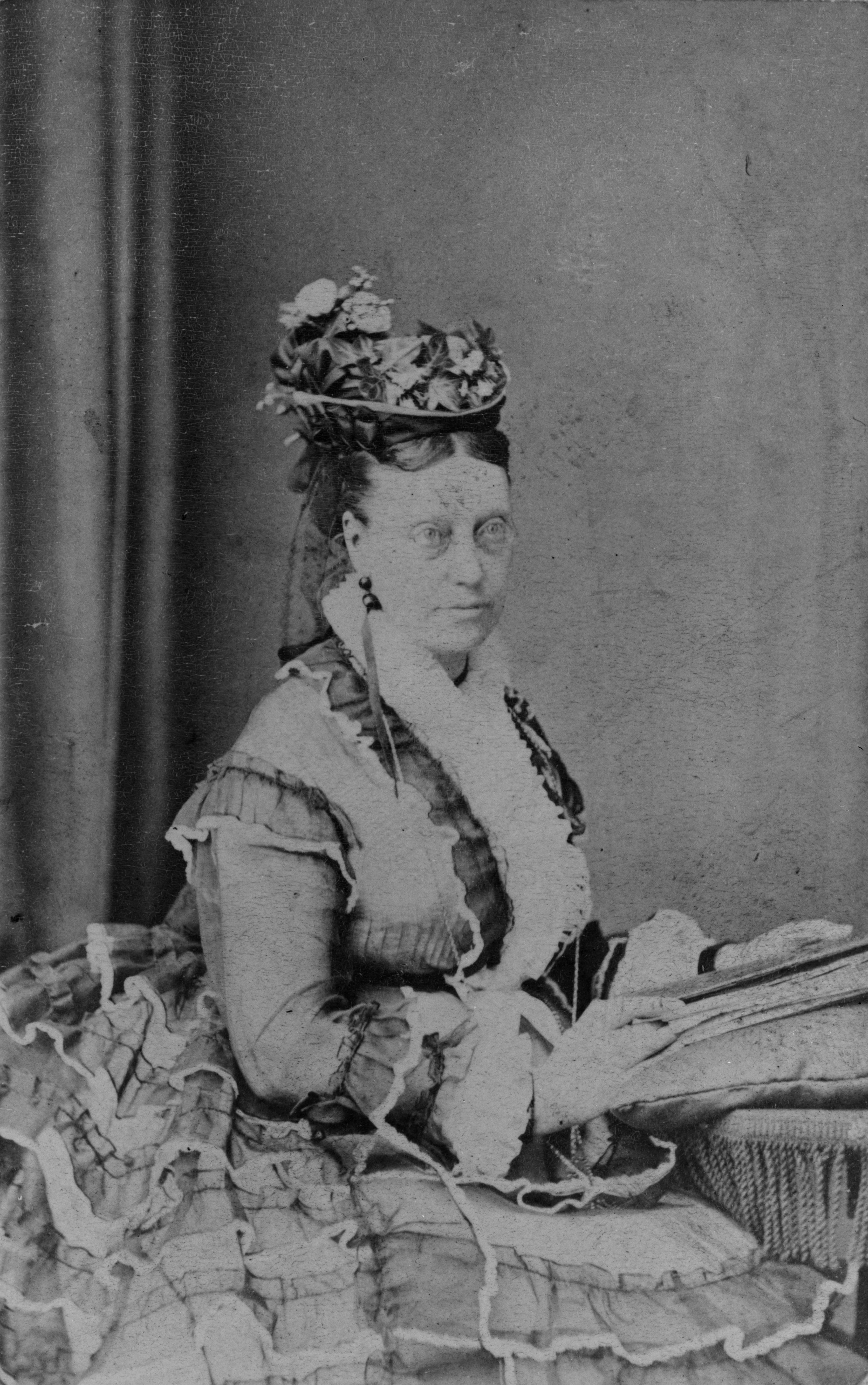 1873 photo of British suffragist Lydia Becker